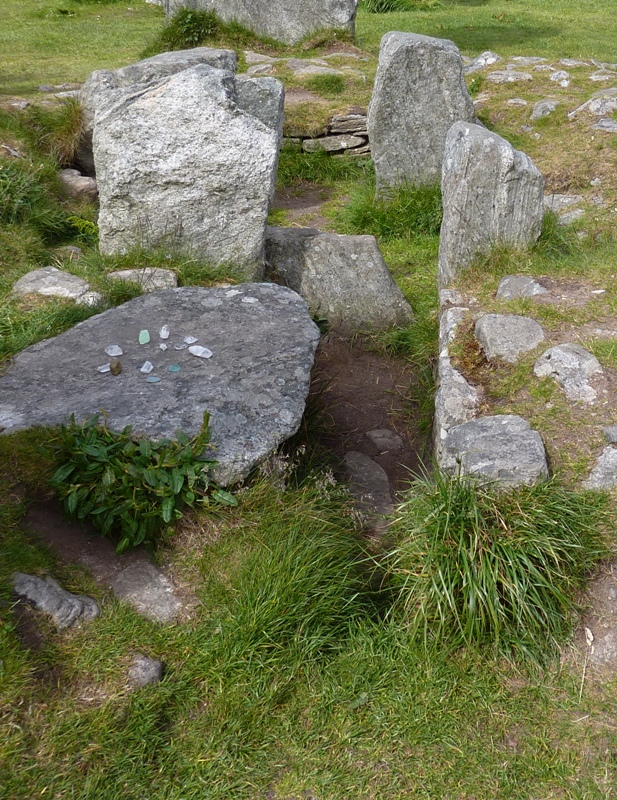 Calanais Standing Stones, Lewis, Scotland